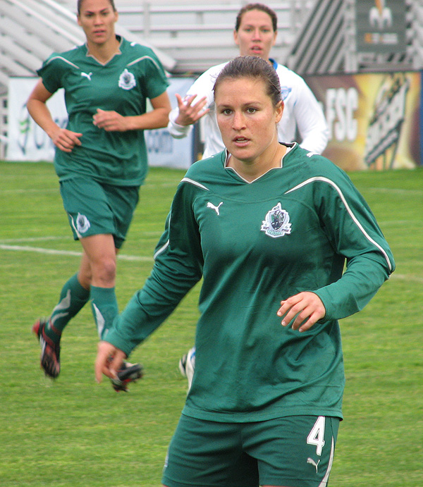 Saint Louis Athletica Kendall Fletcher of the (WPS) Womens Professional Soccer Club, St.Louis Athletica.